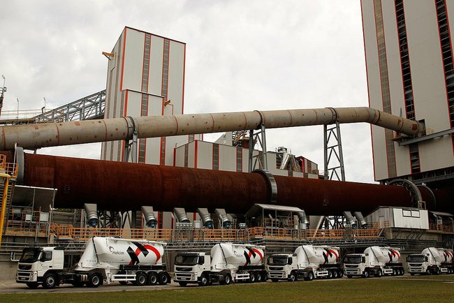 Shchurovsky Cement Plant.